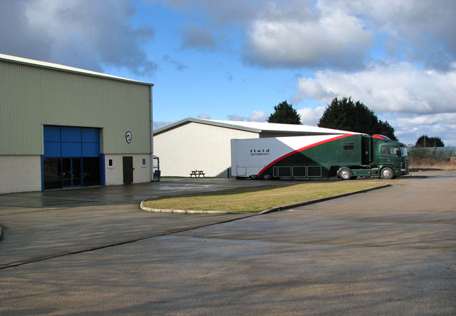 Fluid motorsport, Roudham Park Industrial Estate